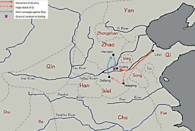 Map showing the Battle of Guiling in 353 BC and 352 BC between Qi and Wei states. 中文（中国大陆）: 齐国和魏国的桂陵之战示意图，围魏救赵